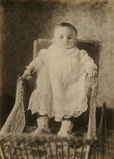 At first look there seems to be nothing wrong with this baby but after close examination you can see that the eyes have a blank stare and are sunken in. The right hand has discoloration on the inside of the fingers.